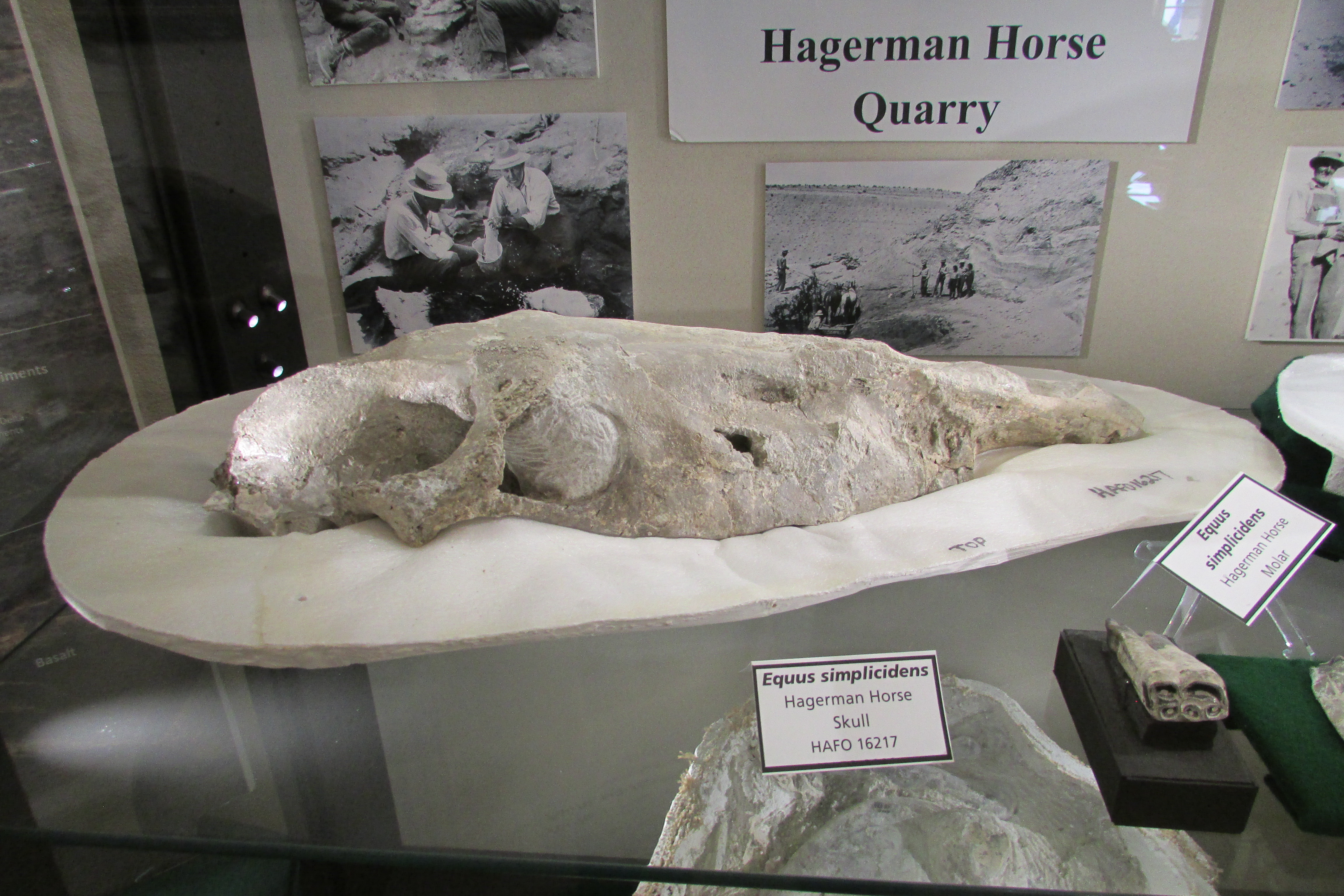 Hagerman Horse (Equus simplicidens) at Hagerman Fossil Beds National Monument Visitor Center.